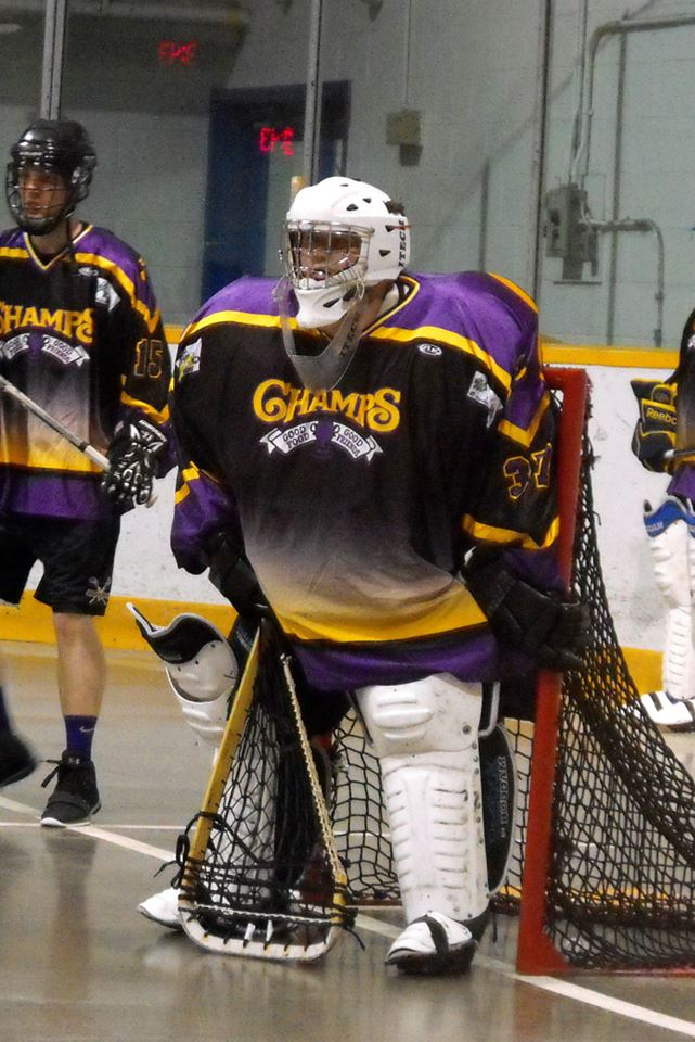 These images of Ontario Senior B Lacrosse Action action during the 2014 season are taken by Devan Mighton.